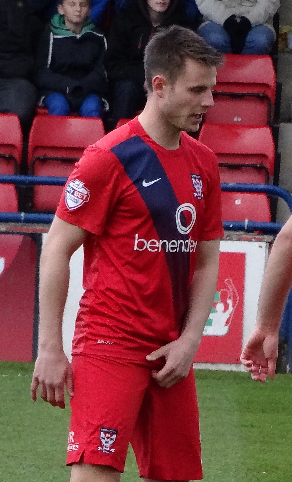 James Berrett playing for York City against Bristol Rovers at Bootham Crescent, York on 30 April 2016